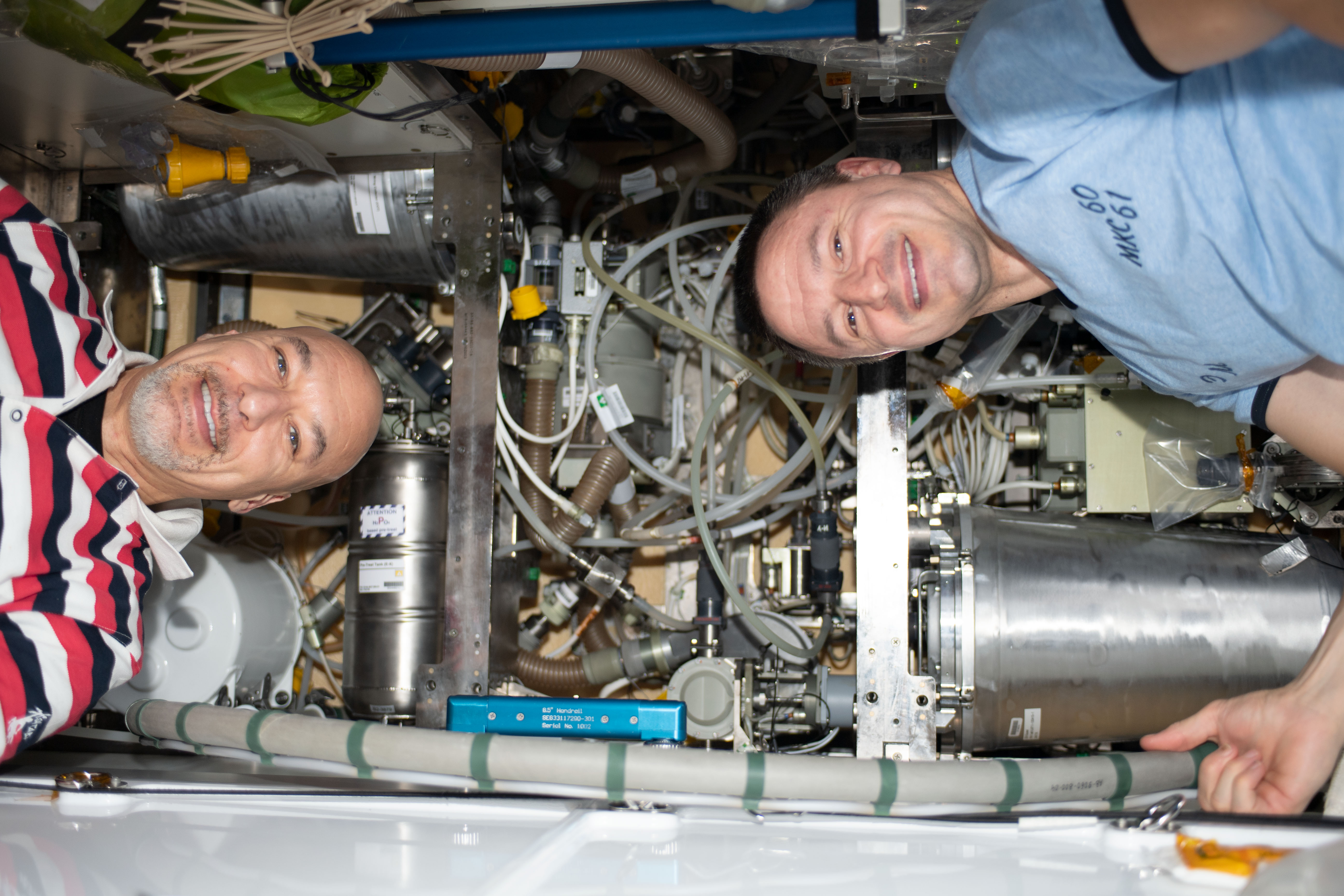 From left, Expedition 61 Commander Luca Parmitano of ESA (European Space Agency) and NASA Flight Engineer Andrew Morgan are pictured replacing components inside the International Space Station's bathroom, the Waste and Hygiene Compartment.